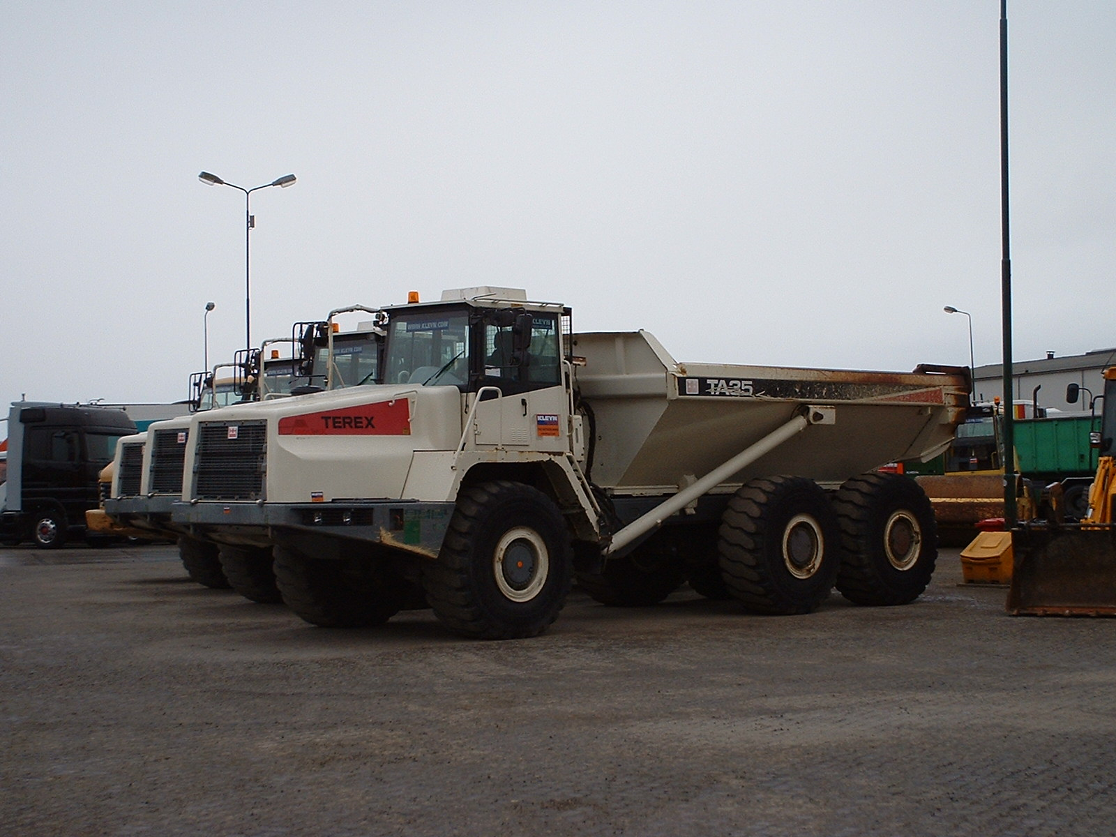 Terex dump trucks seen in Vianen Holland